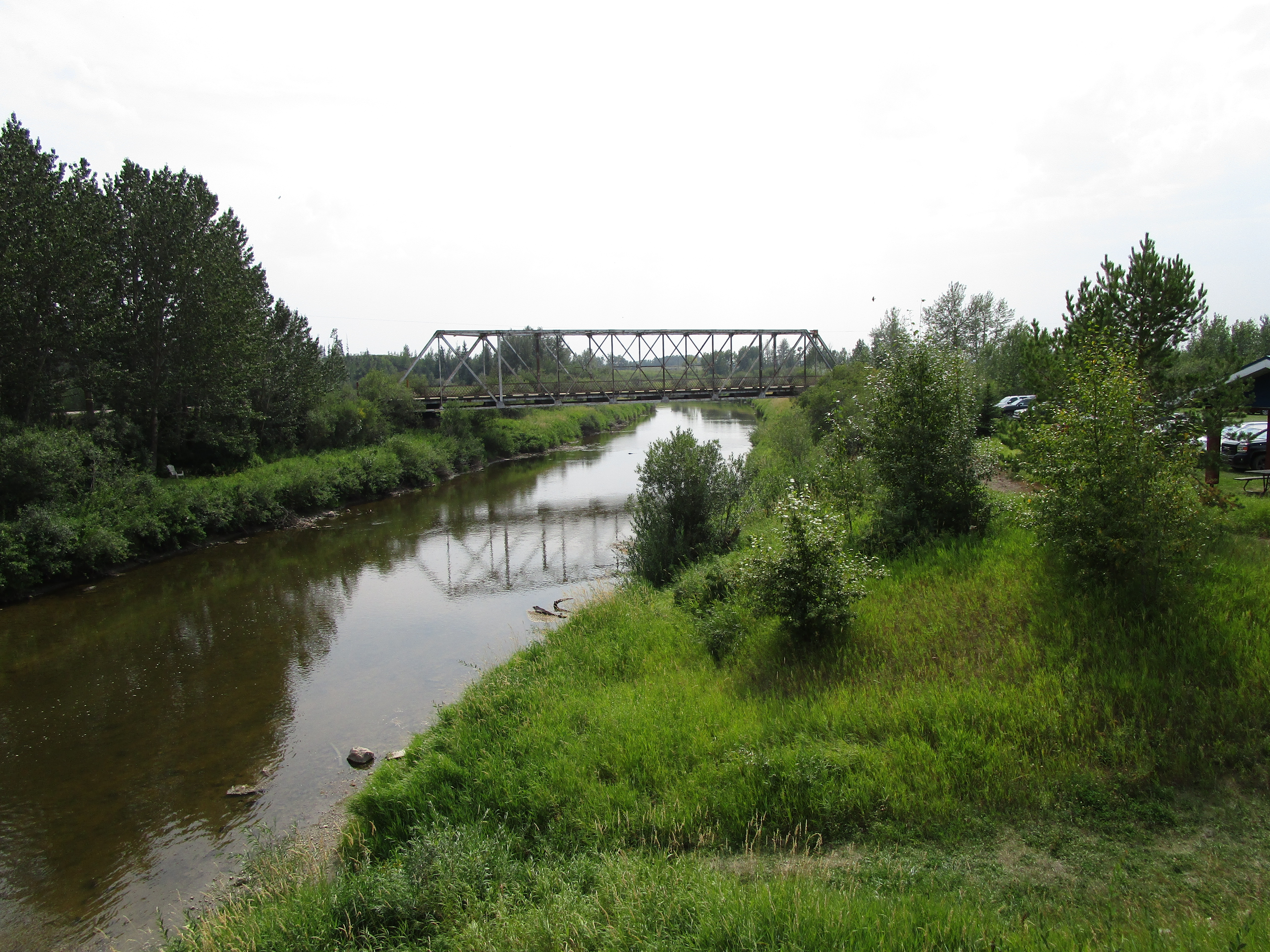 Medicine River, Markerville, Alberta, Canada